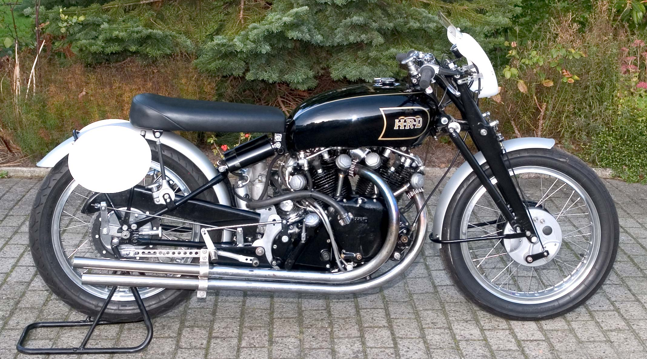 The VINCENT Black Lightning of E. Hegeler/Germany